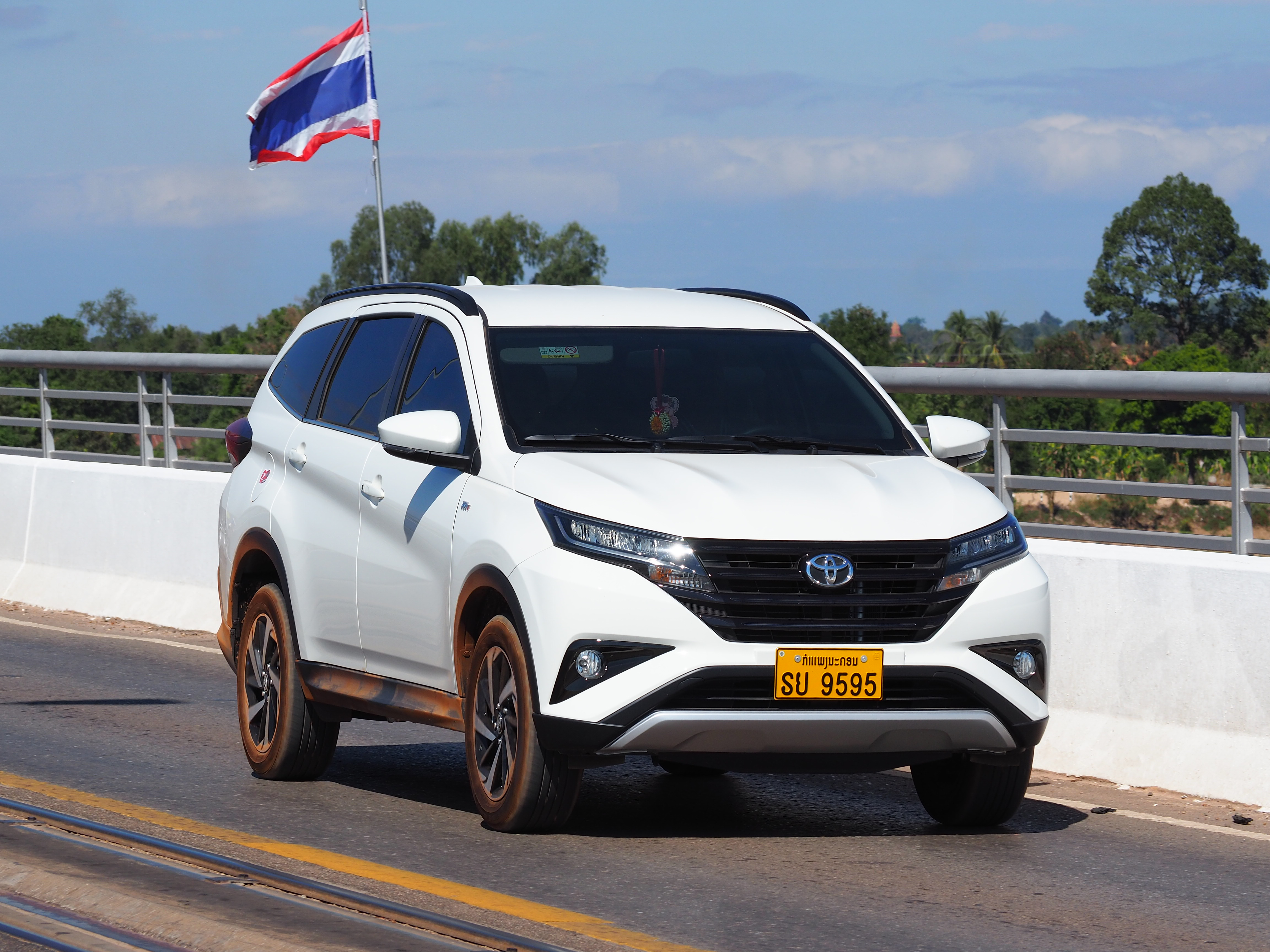 2018 Toyota Rush 1.5S in Thai-Lao Friendship Bridge, Nong Khai, Thailand.